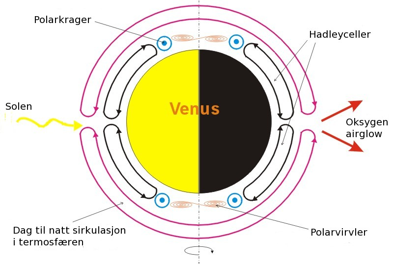 Circulation in the atmosphere of Venus